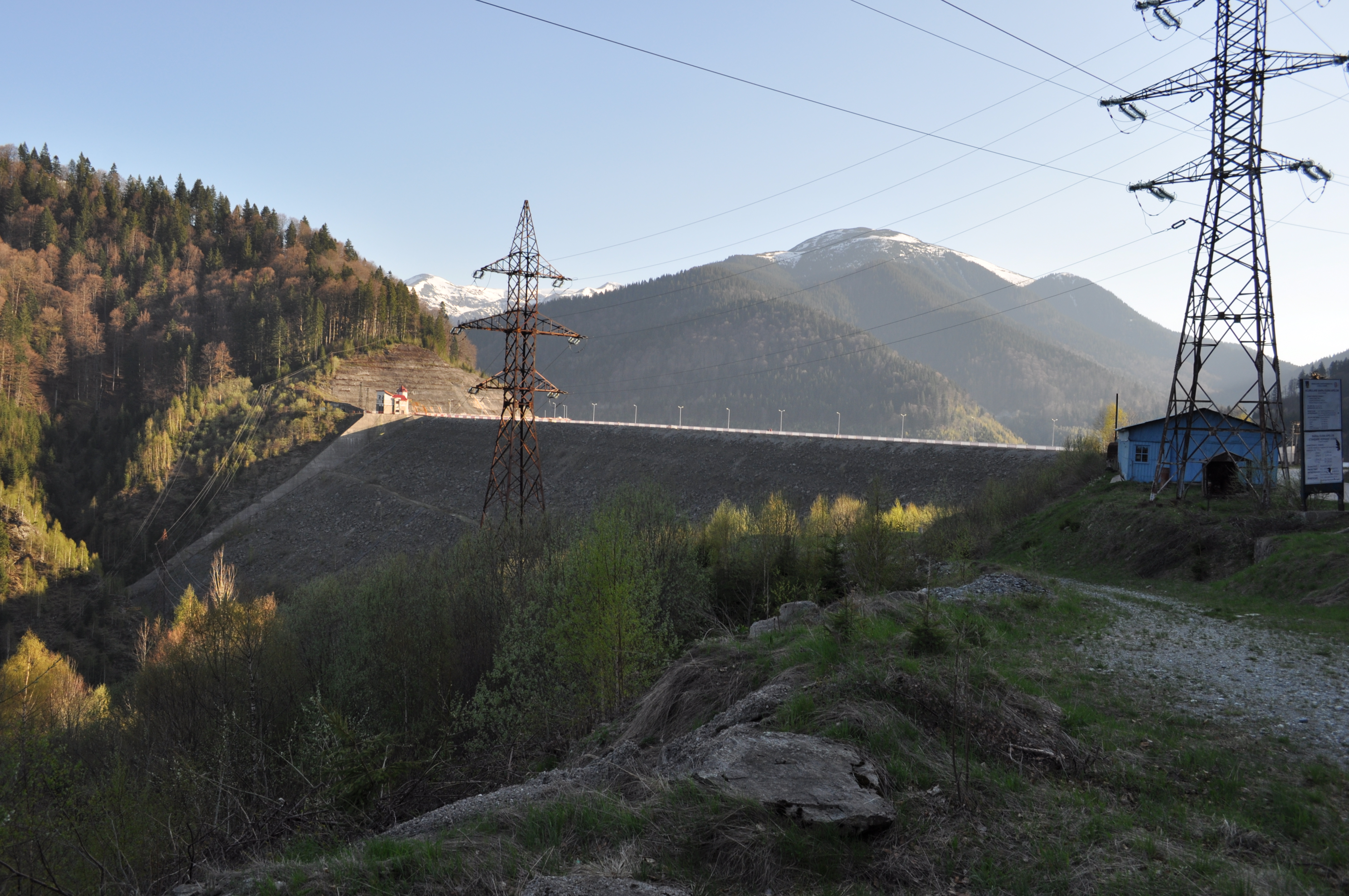 Gura Apelor dam and reservoir, Hunedoara counrty, Romania